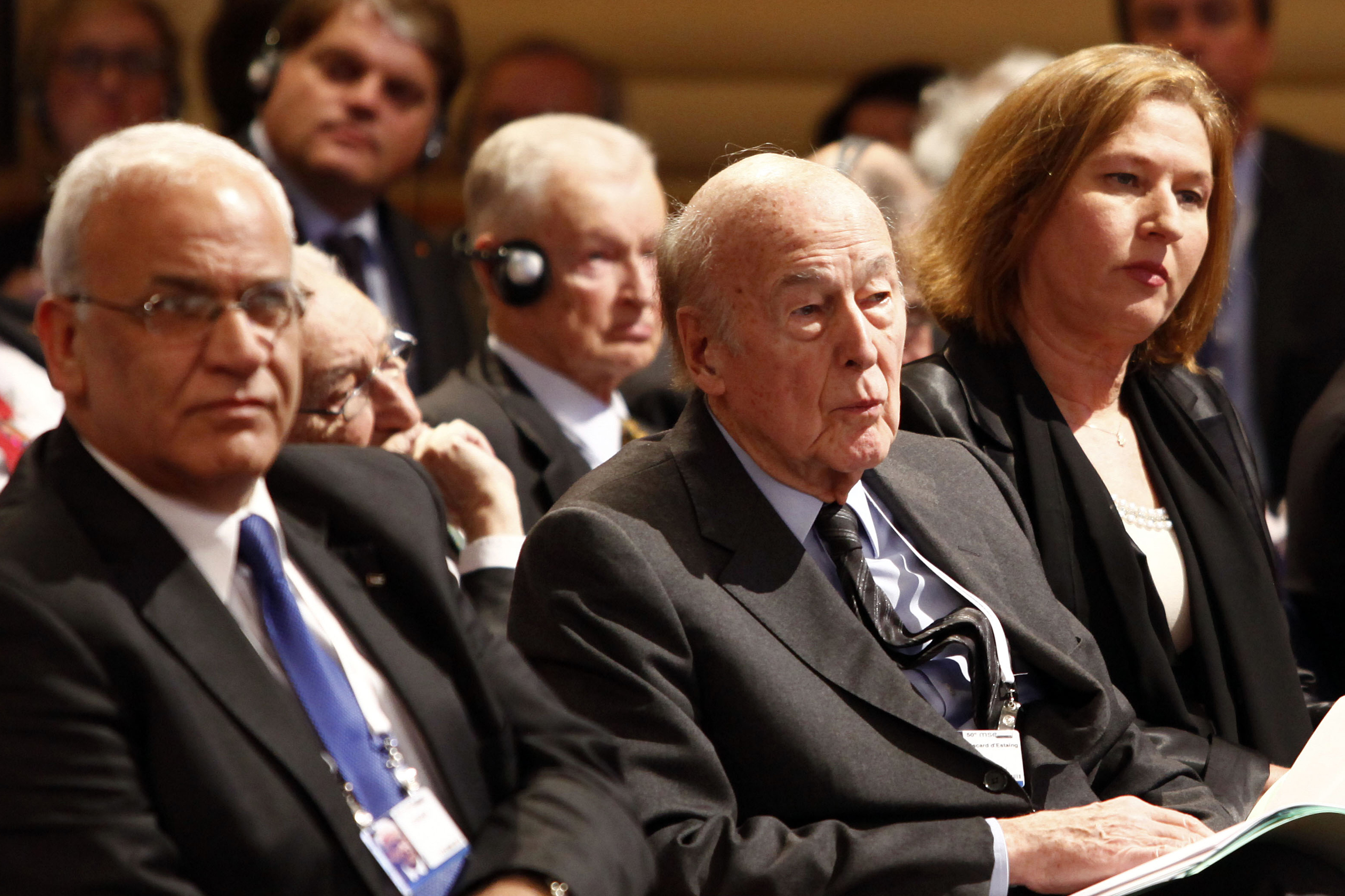 50th Munich Security Conference 2014: Saeb Erekat,Valéry Giscard d'Estaing and Tzipi Livni: Saeb Erekat (Head of the Palestinian Negotiation Steering and Monitoring Committee, Palestinian National Authority), Valéry Giscard d'Estaing (Former President of the French Republic) and Tzipi Livni (Minister of Justice, State of Israel).